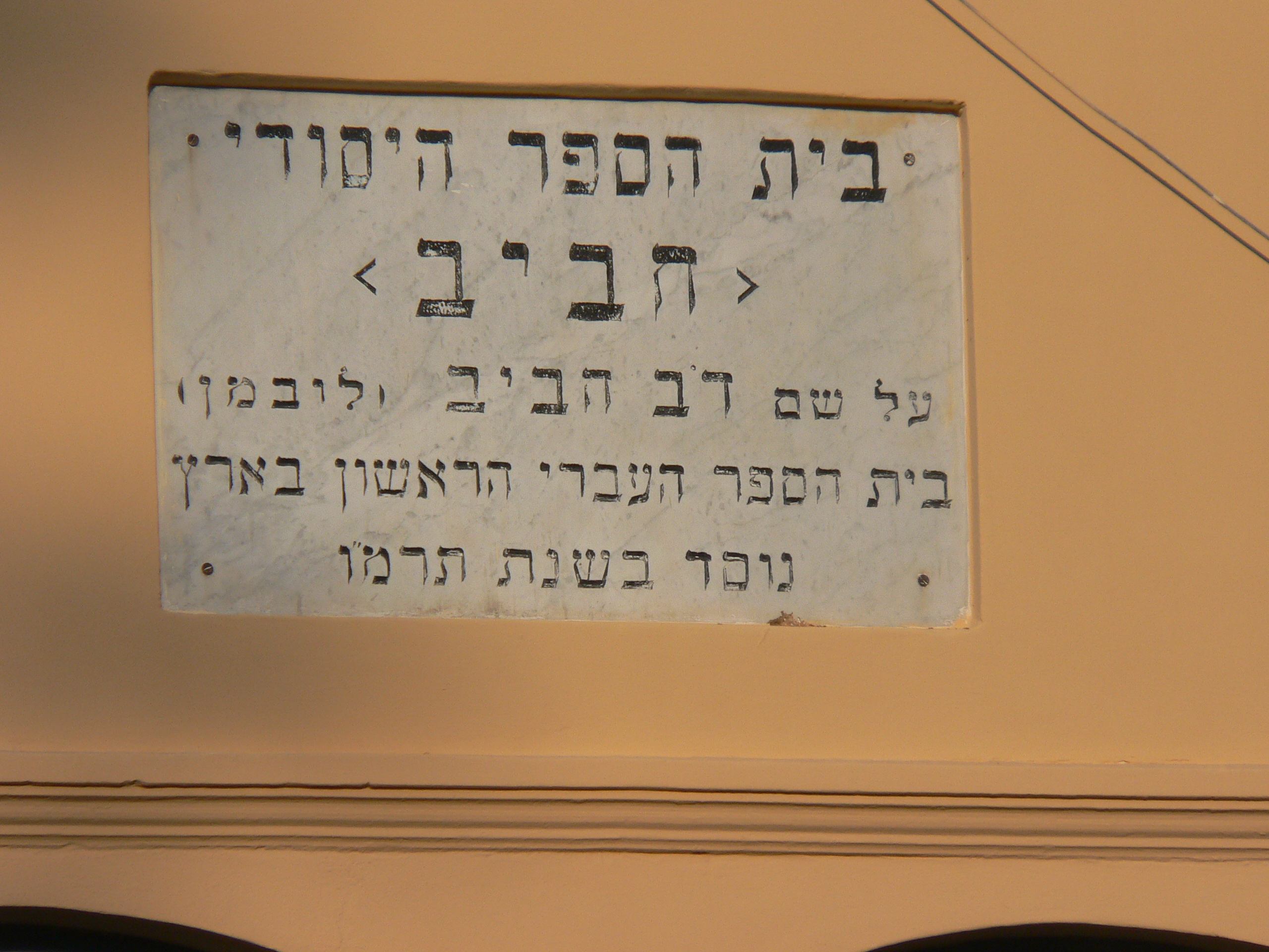 Haviv elementary school, Rishon LeZion, Israel